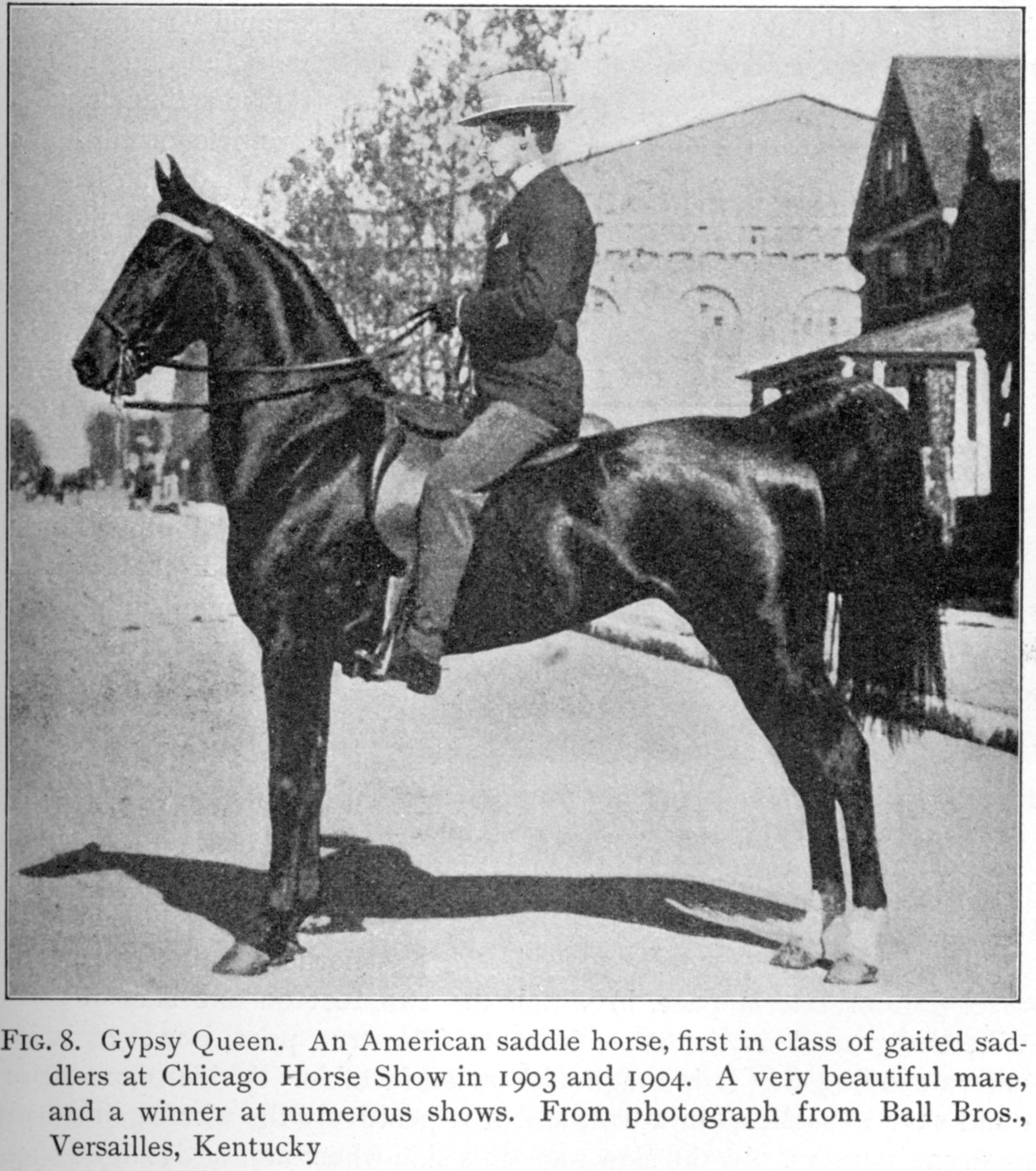 Gypsy Queen, Saddlebred mare circa 1900